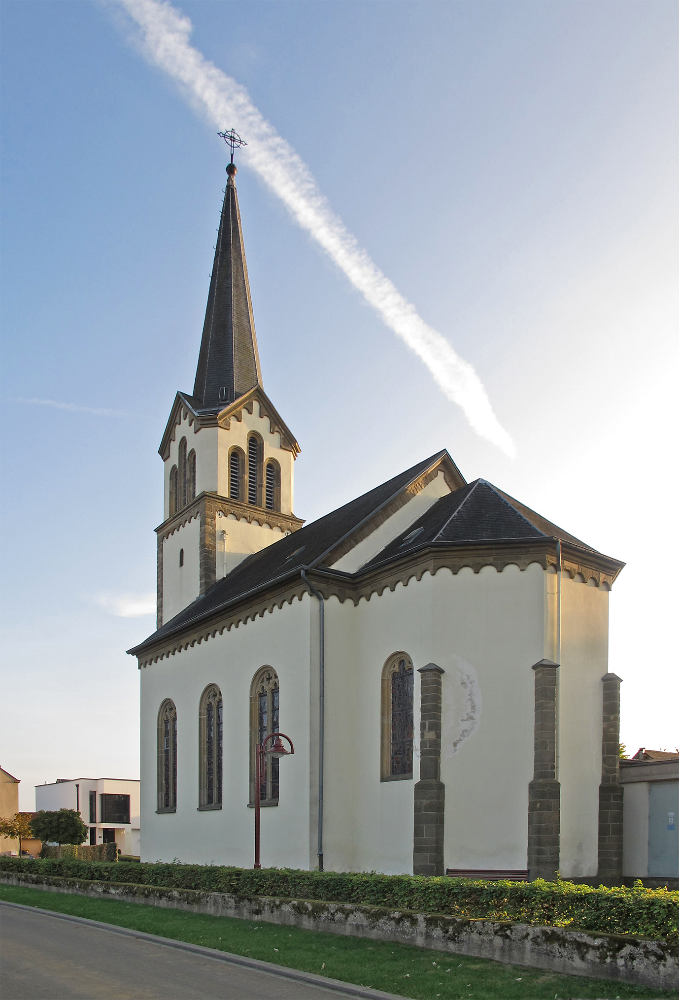 Church of Altrier, Luxembourg